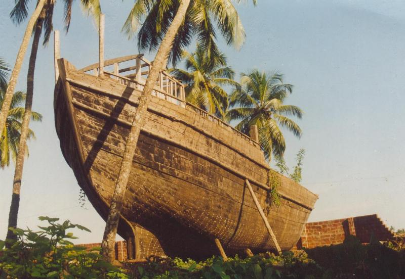 A wooden boat of some sort in Kozhikode, India.